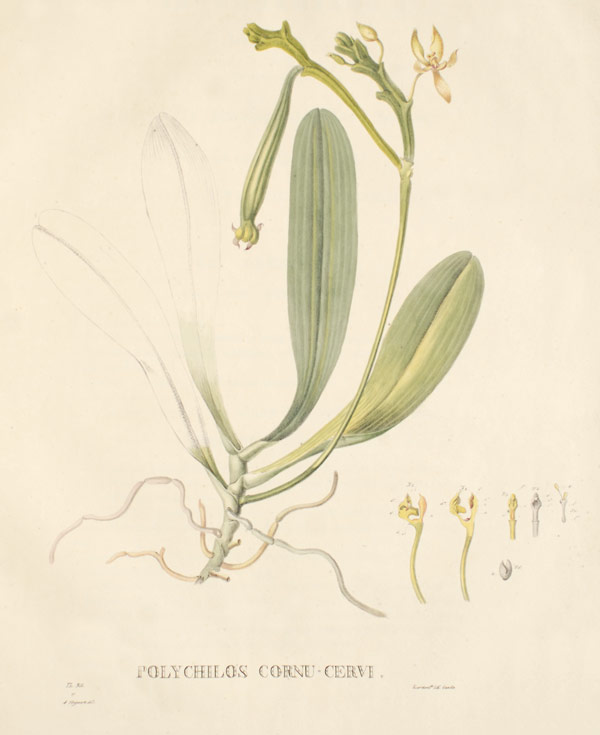 Phalaenopsis cornu-cervi